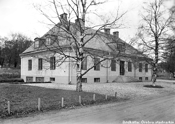 Office building at Garphytte bruk outside Örebro, Sweden